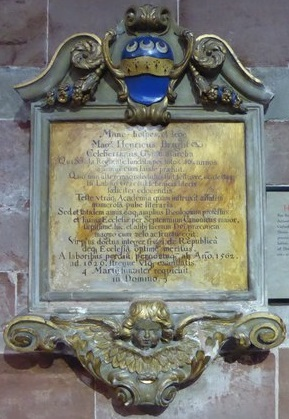 Monument in Worcester Cathedral to Henry Bright (baptised 26 October 1562 – 4 March 1627[A]) of Brockbury in the parish of Colwall, Herefordshire, was a clergyman and schoolmaster in Worcester. He served for 38 years Headmaster at The King's School, Worcester, and is mentioned by Thomas Fuller and Anthony Wood as an exceptional teacher. He died on 4 March 1627. His mural monument survives in Worcester Cathedral and contains an epitaph written by Joseph Hall (then Dean of Worcester), and quoted by Fuller. Text see Henry Bright (schoolmaster, born 1562)